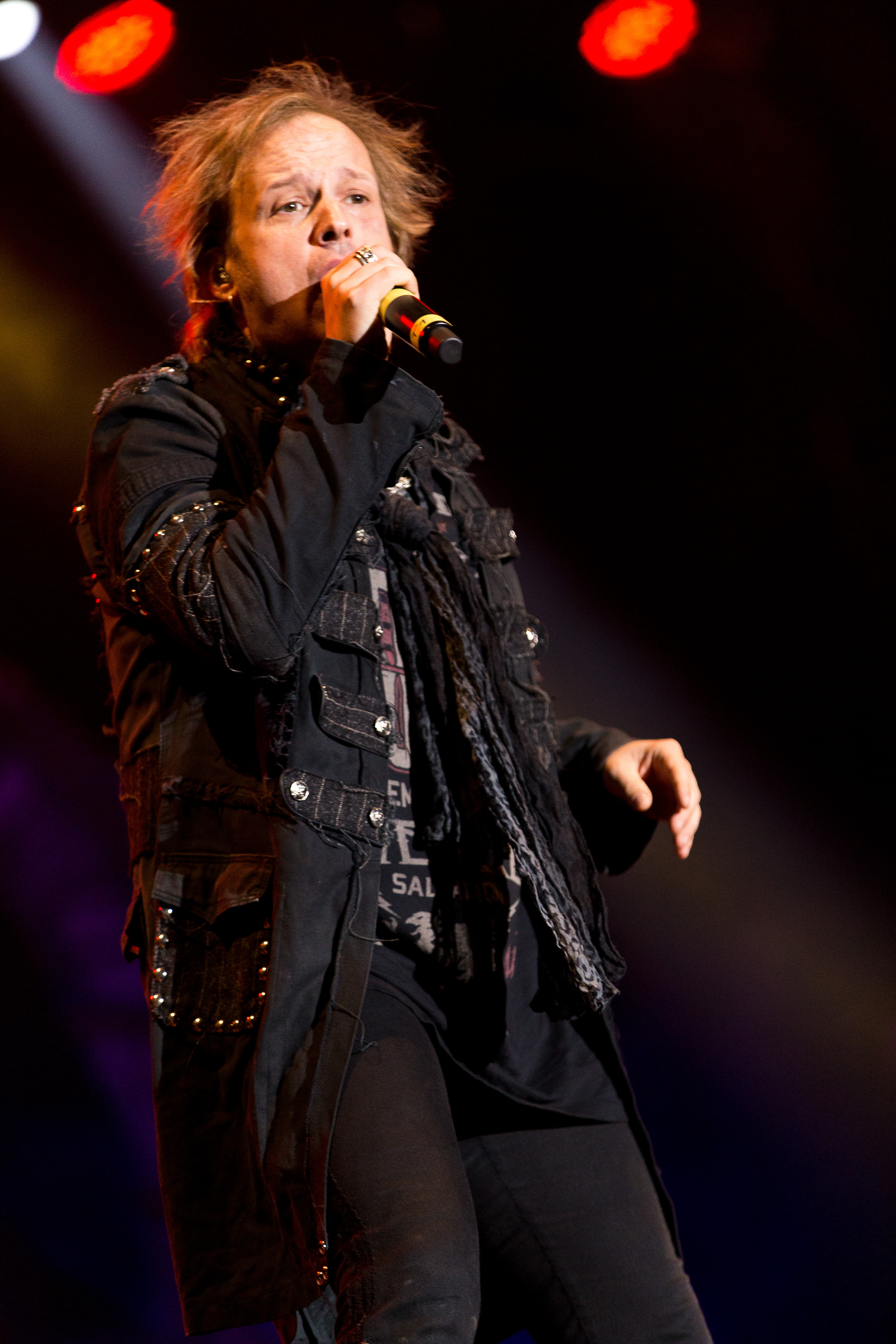 The German supergroup rock opera Avantasia at the Rockharz Open Air 2016 in Ballenstedt/Germany.